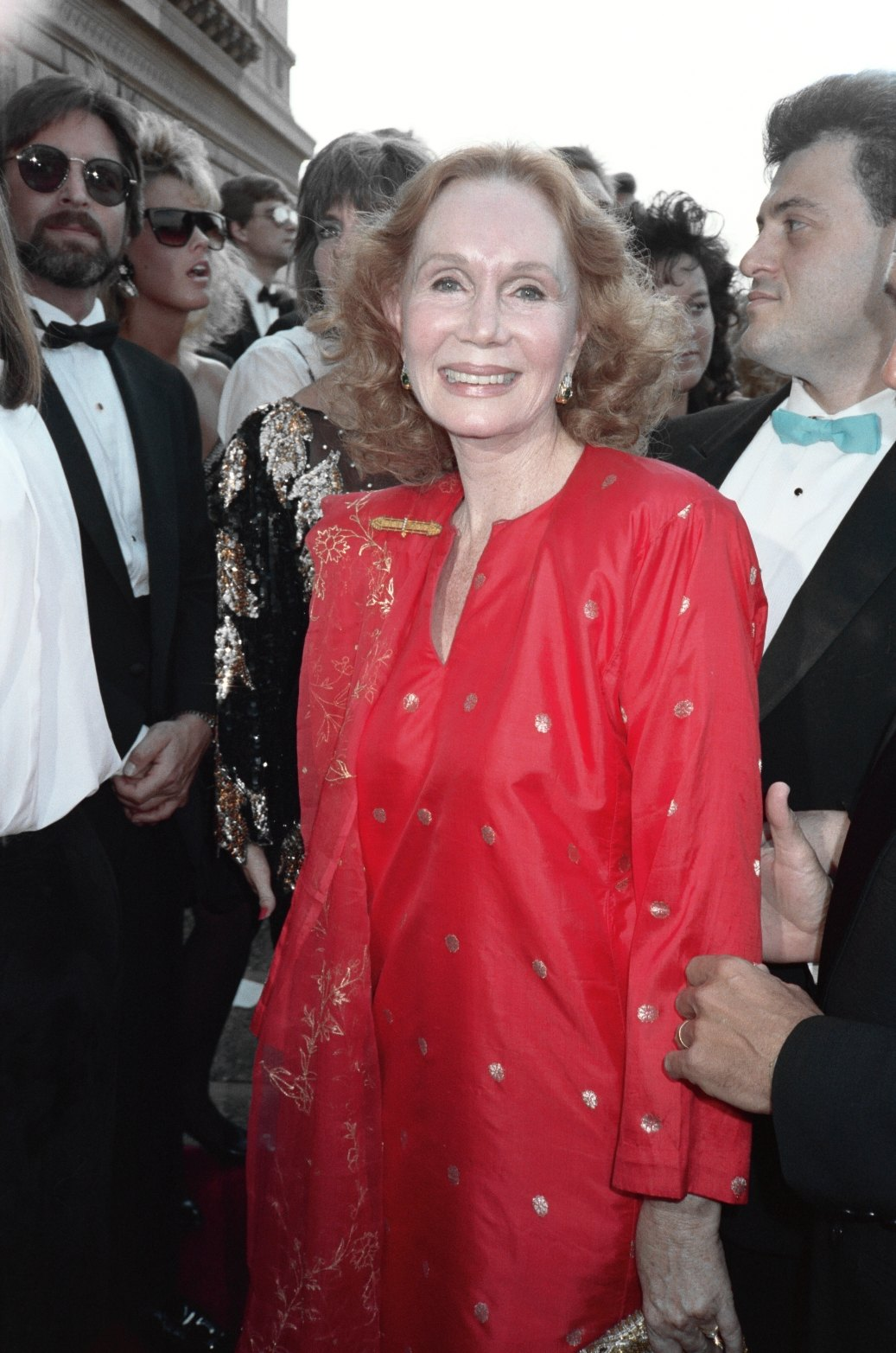 Katherine Helmond at the 40th Primetime Emmy Awards, August 28, 1988. depicted person: Katherine Helmond (age: 60) Original description by the photographer: 1988 Emmy Awards NOTE: Permission granted to copy, publish, broadcast or post any of my photos, but please credit "photo by Alan Light" if you can. Thanks. Scanned from the original 35MM film negative.